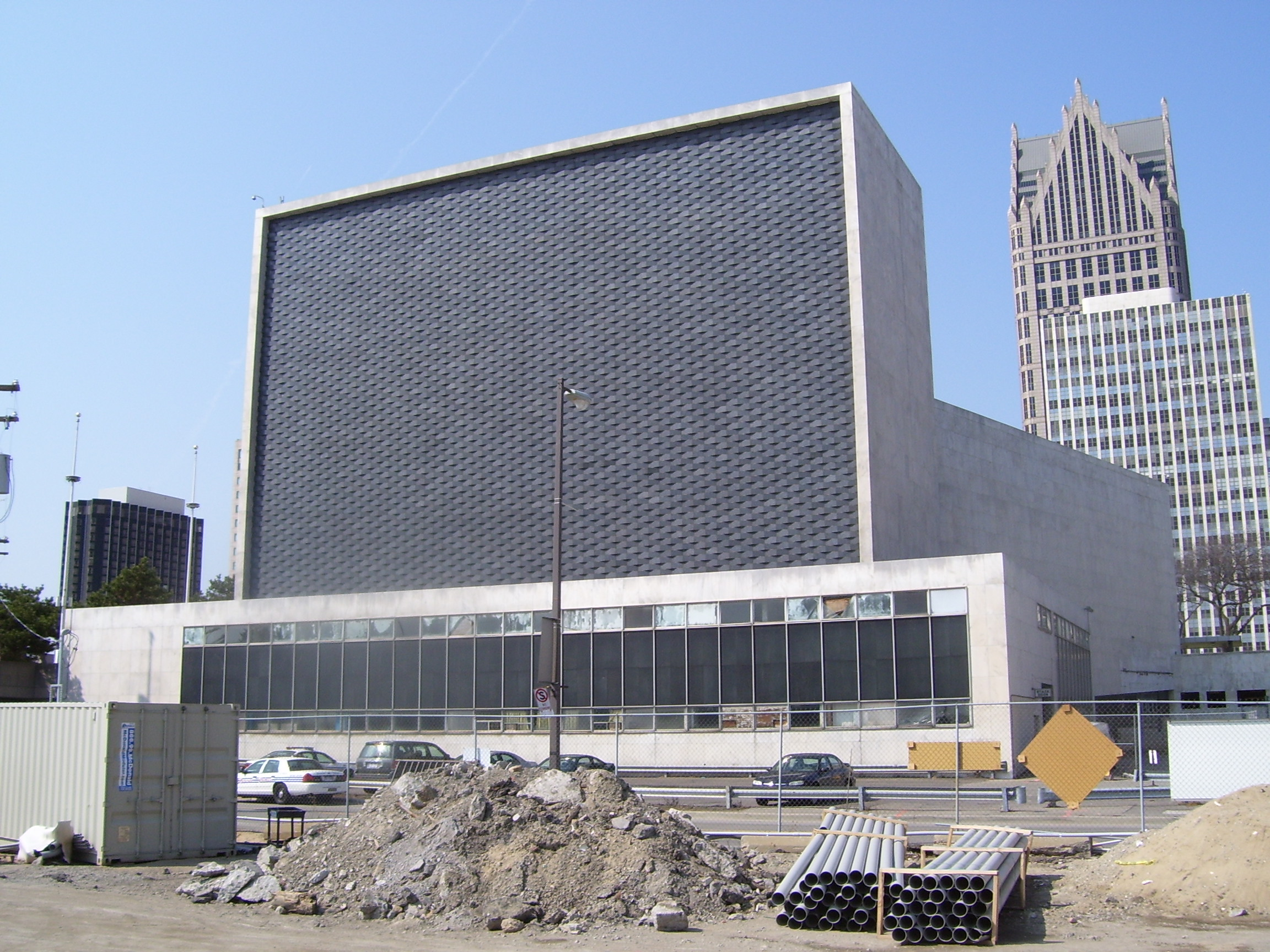 The Ford Auditorium in Detroit, Michigan — as seen from the Detroit International Riverfront. Building demolished in 2011.